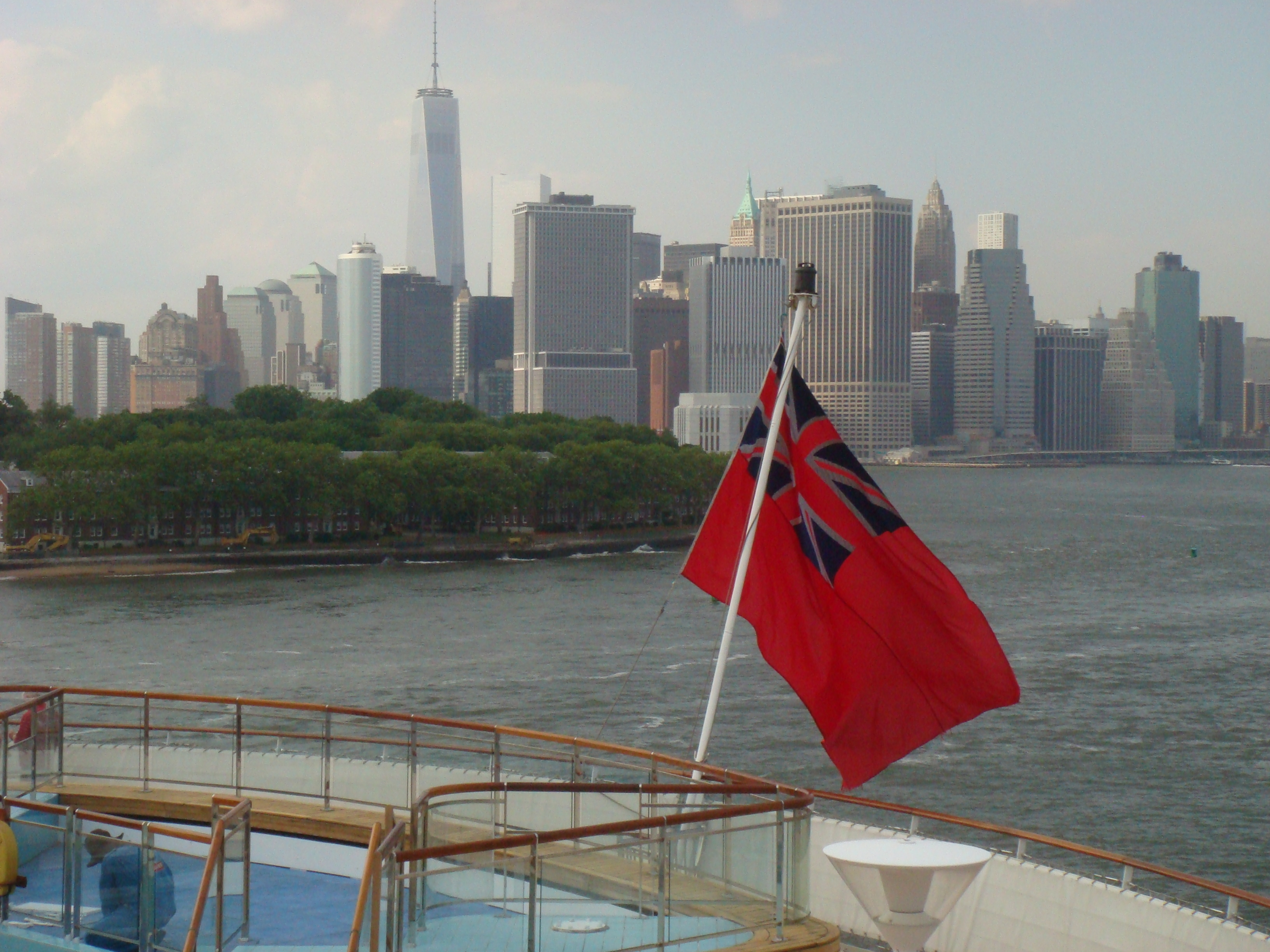 Undefaced red ensign flown by RMS Queen Mary 2 in July 2014.